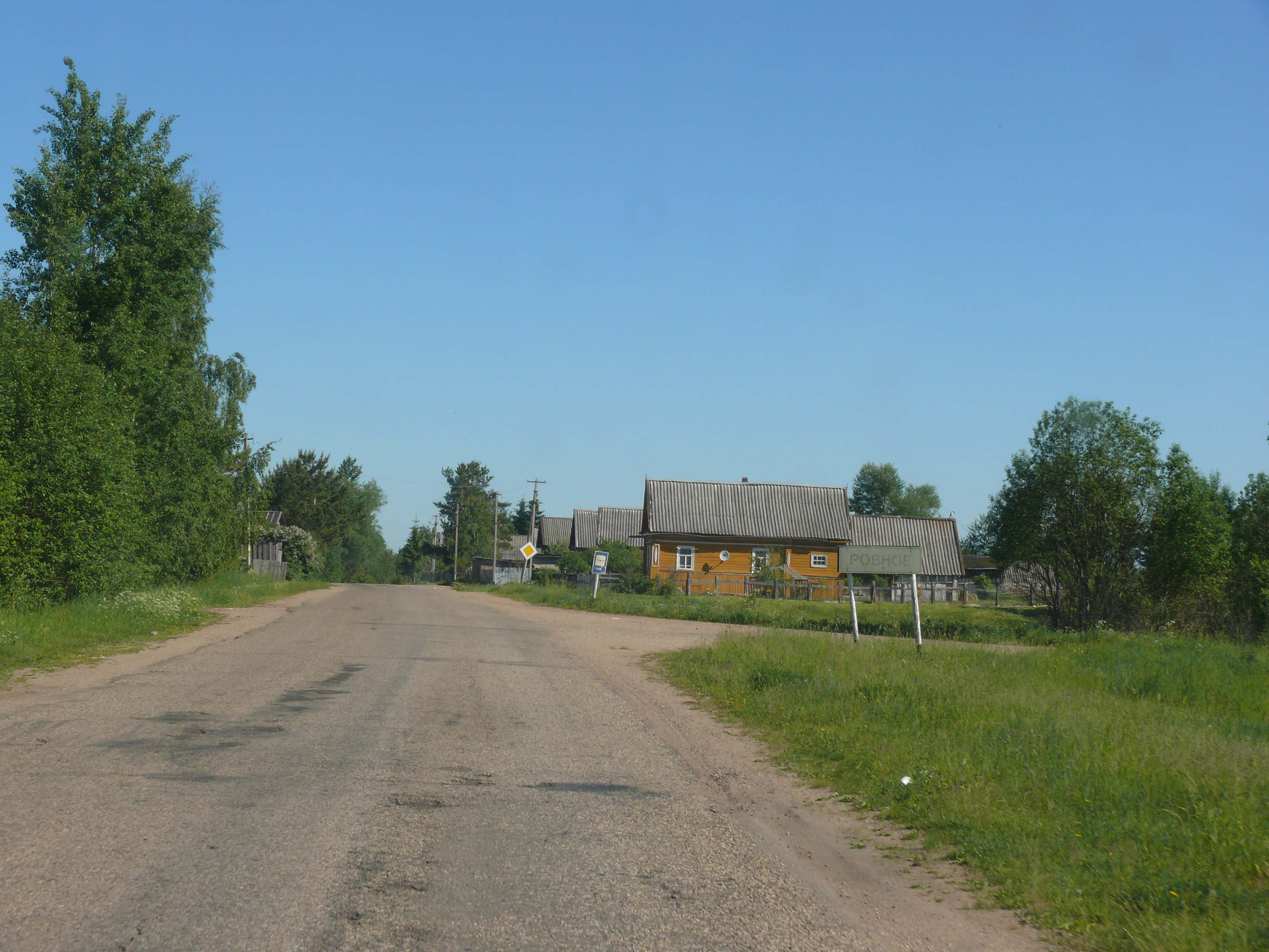 Rovnoye village. Borovichsky district, Novgorod oblast, Russia